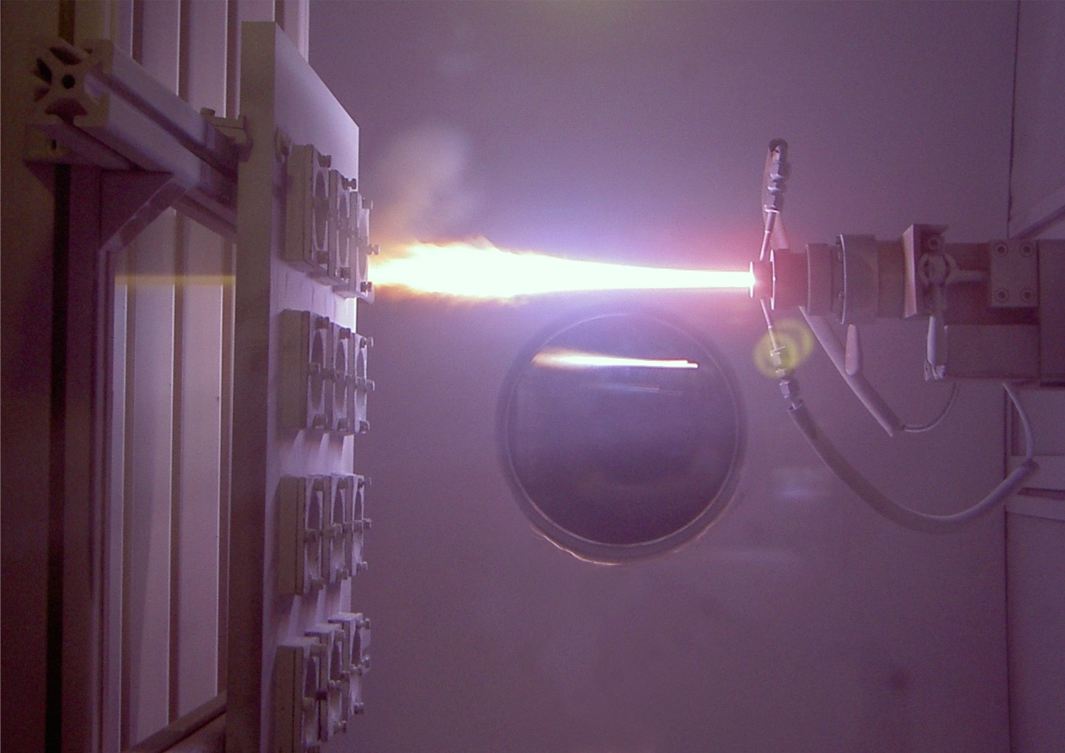 Application of a cordierite layer on substrate by vacuum plasma spraying (VPS).